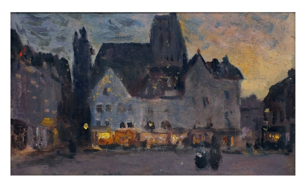 Colin Campbell Cooper's "European Plaza" or "Nocturnal Town Square". Oil on board# Part of the Colin Campbell Cooper exhibition by James Hansen in Santa Barbara, Califonia in 1981.